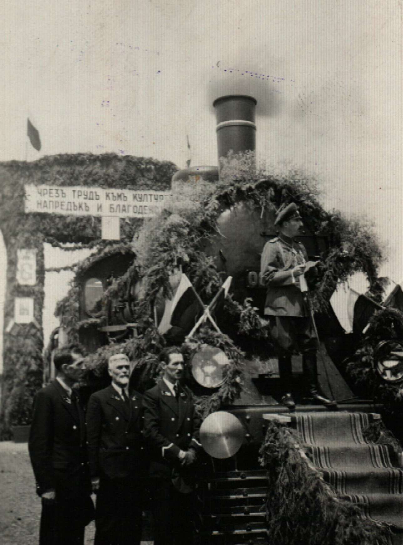 Boris III of Bulgaria, 1939